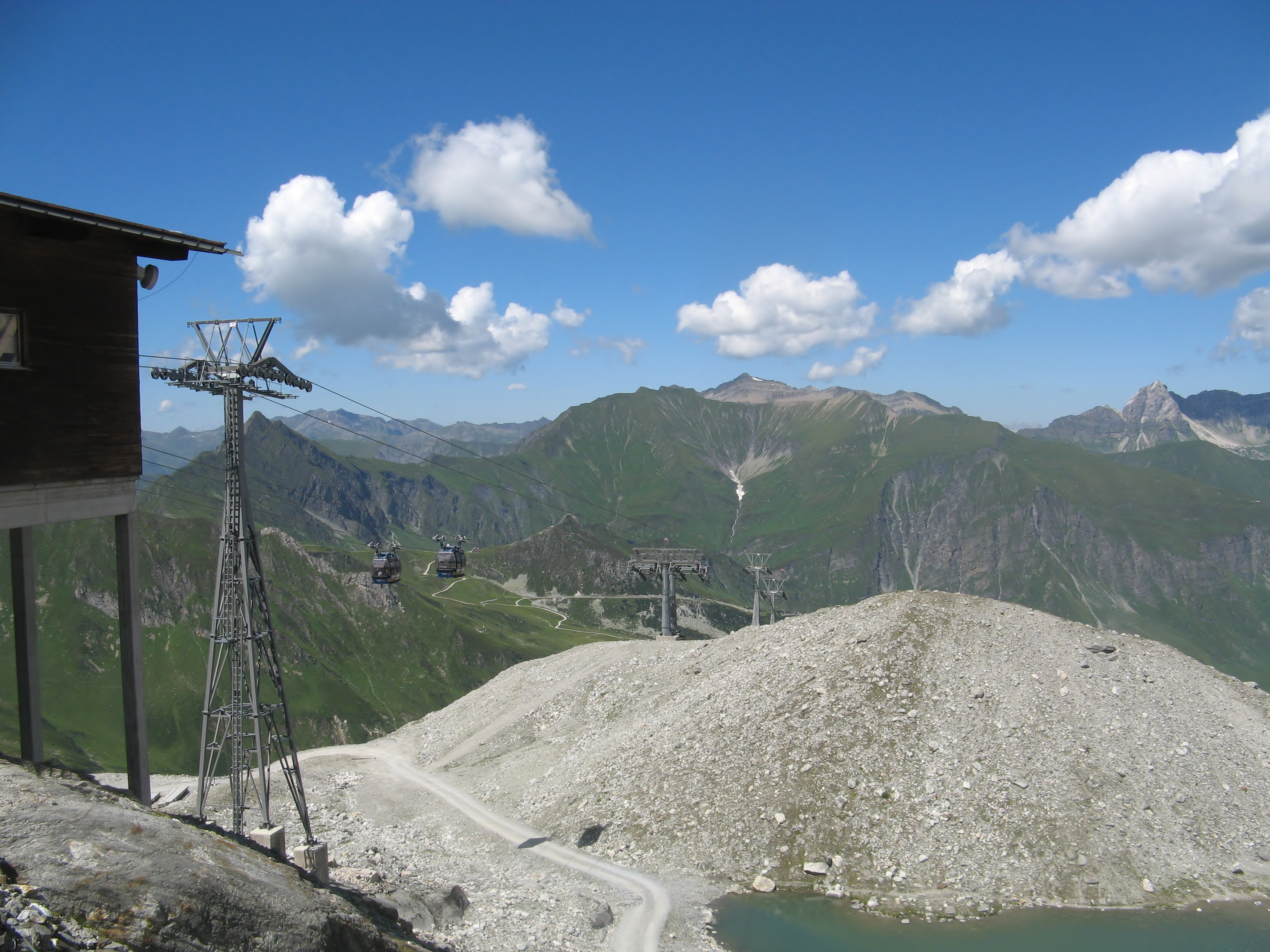 Het middenstation van de Hintertuxer Gletscher